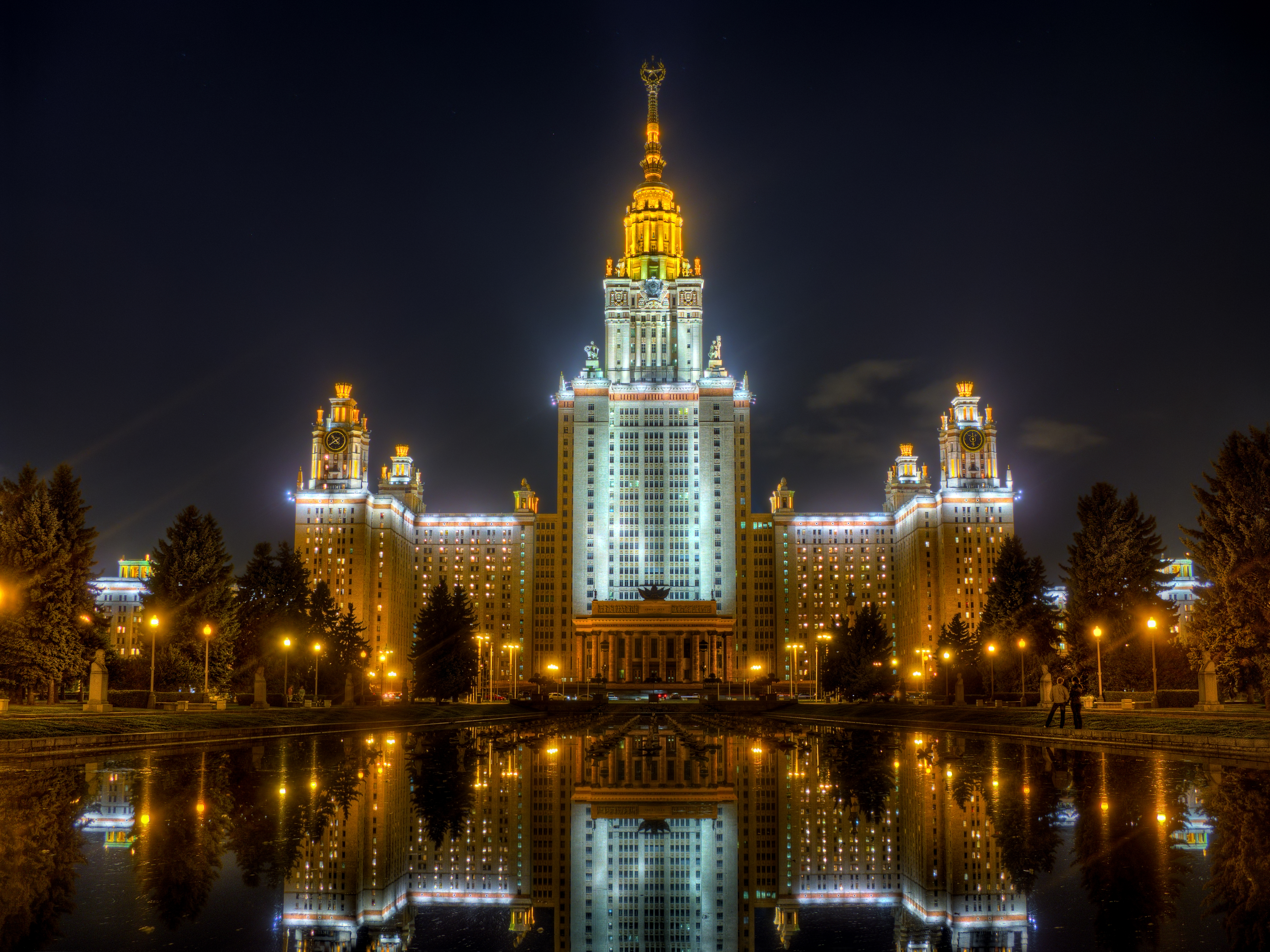 Lomonosov Moscow State University, september 2010. 5 exposures (+4, +2, 0, -2, -4). Looks better in big resolution: 4028 x 3021 pixels. Prints | Blog | Facebook | Google+ | DeviantArt | 500px | Tumblr